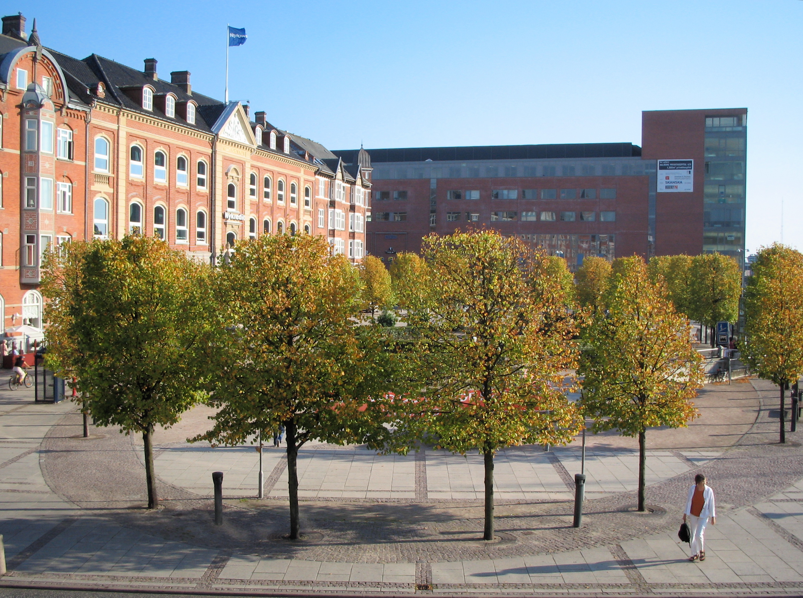 John F Kennedy Square in Aalborg, Denmark. Named after the 35th President of the United States, John Fitzgerald Kennedy.